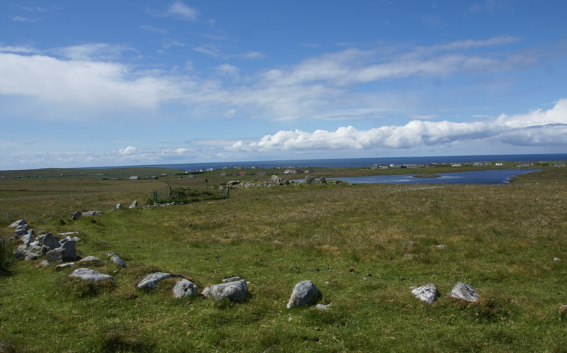 Steinacleit, Lewis, Outer Hebrides, Scotland